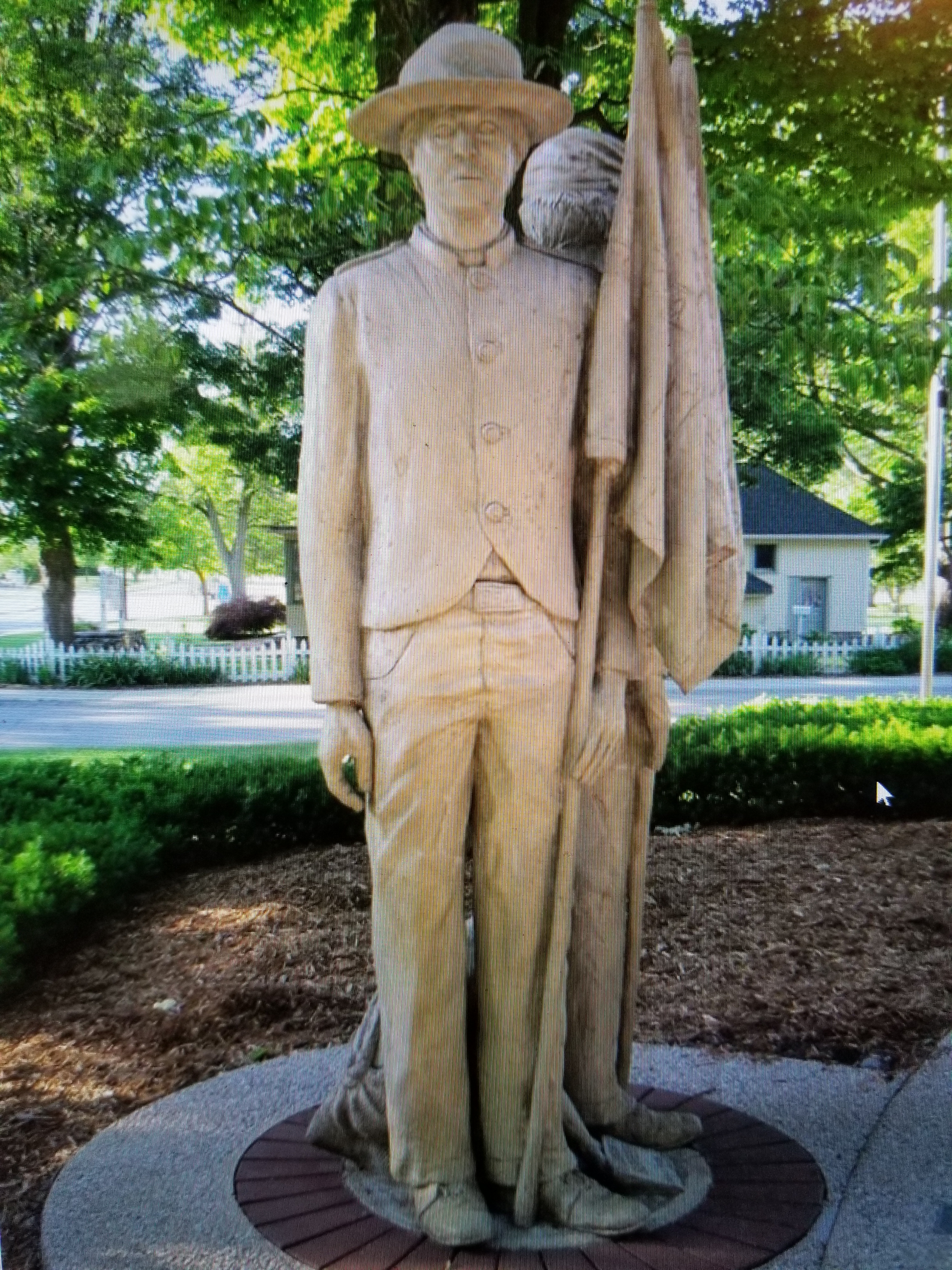 This monument of a union soldier and a confederate soldier standing back to back with a slave child crouched at their feet is located in the Allendale Community Park in Allendale Township Michigan.